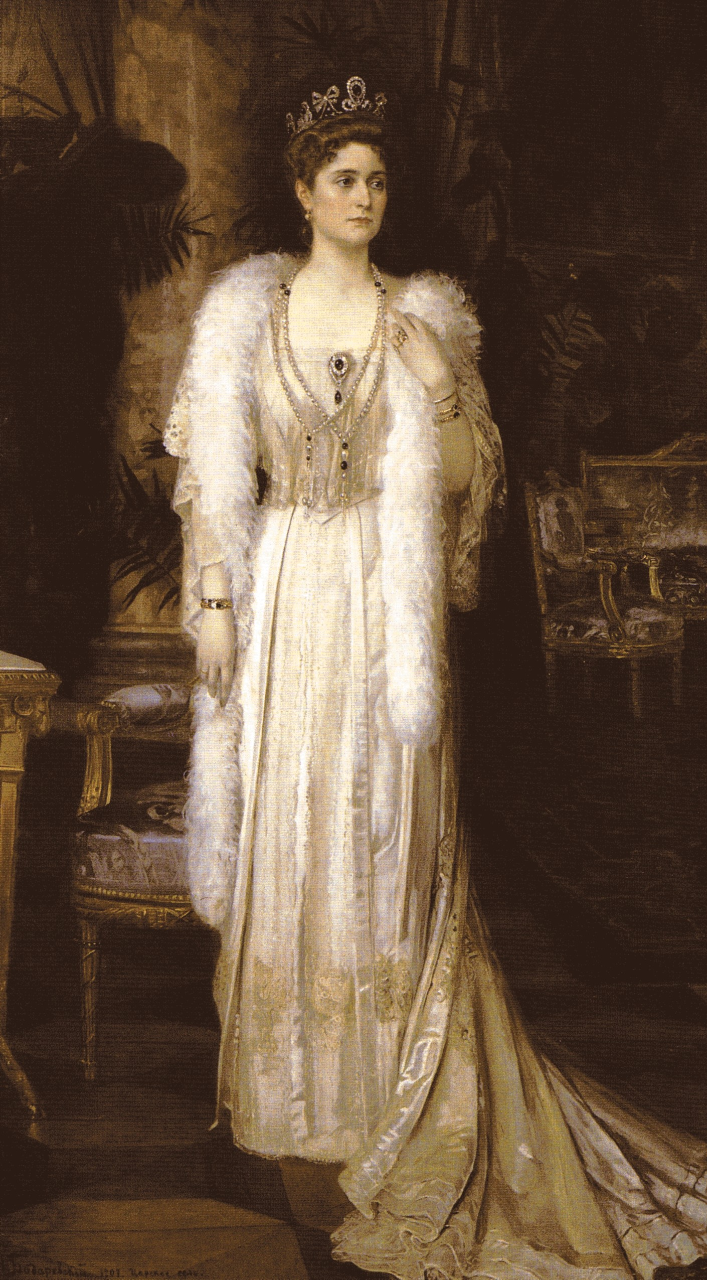 Portrait of Empress Alexandra Feodorovna by Nikolai Kornilievich Bodarevsky, Tsarskoe Selo, Russia, 1907